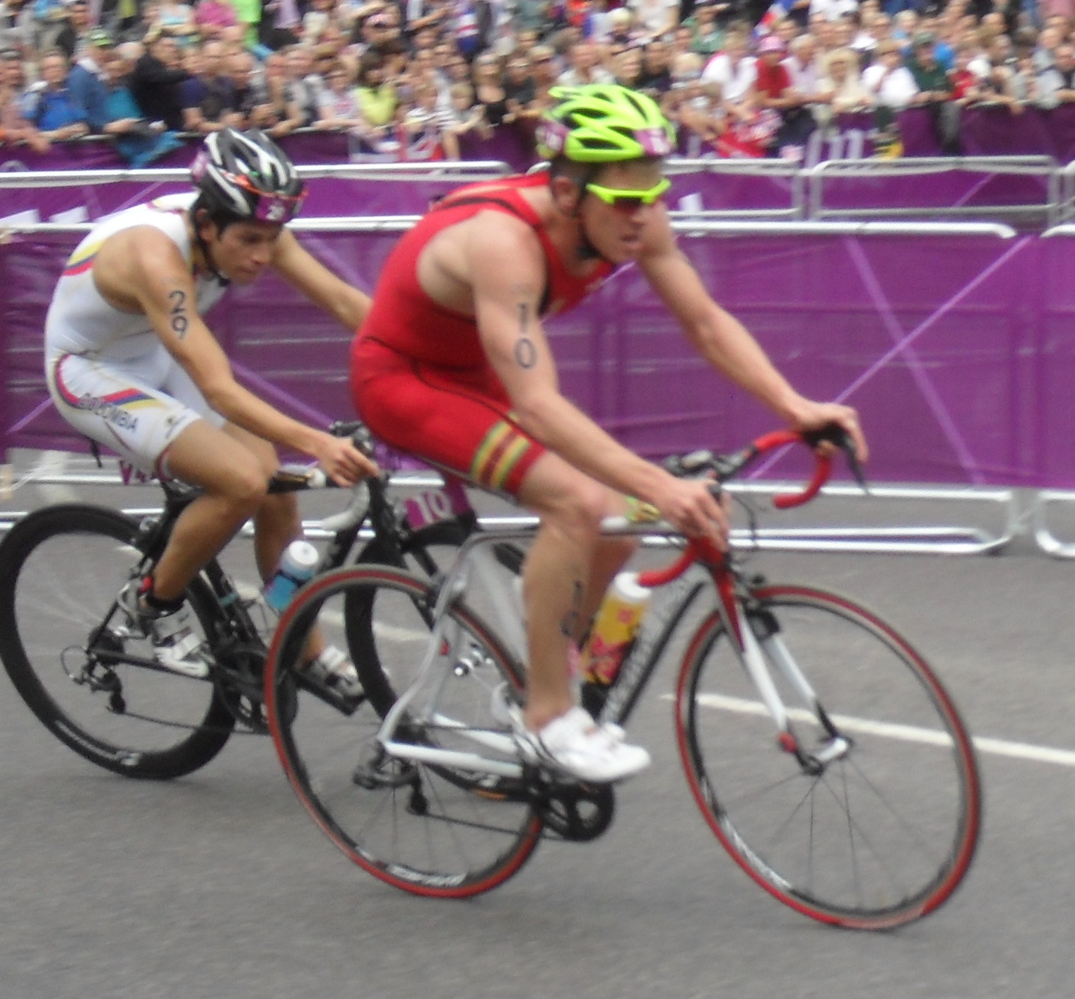 Christopher Felgate (Zimbabwe) and Carlos Javier Quinchara (Colombia), Men's Triathlon, 2012 Summer Olympics